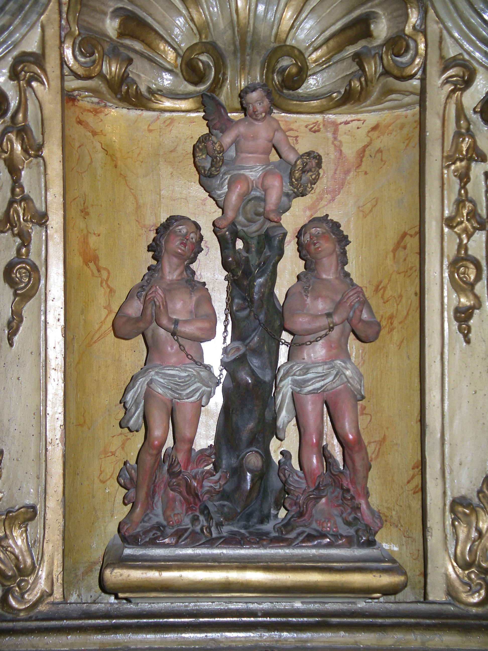 Saints Lucianus and Marcianus, saints patrons of Vic (Catalonia, Spain), from an altarpiece of 18th century, at Barcelona church of Sant Sever.